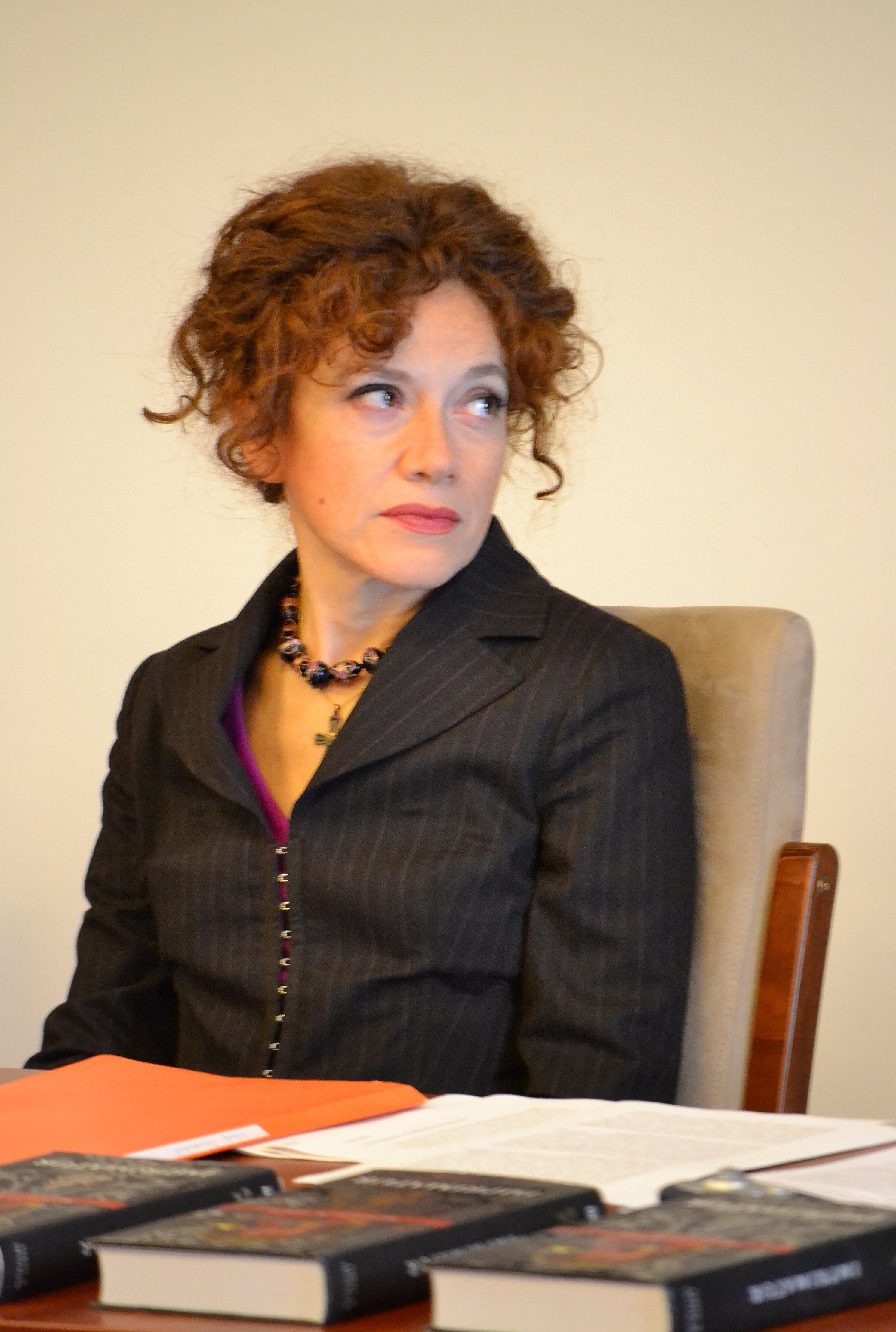 Rita Monaldi (born 1966) is an Italian journalist and writer.